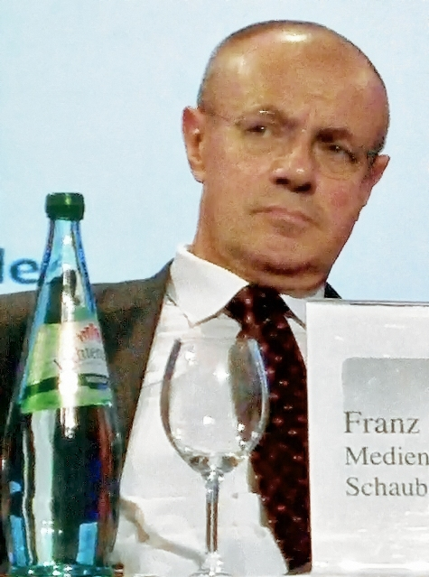 German author, journalist and Manager Franz Sommerfeld